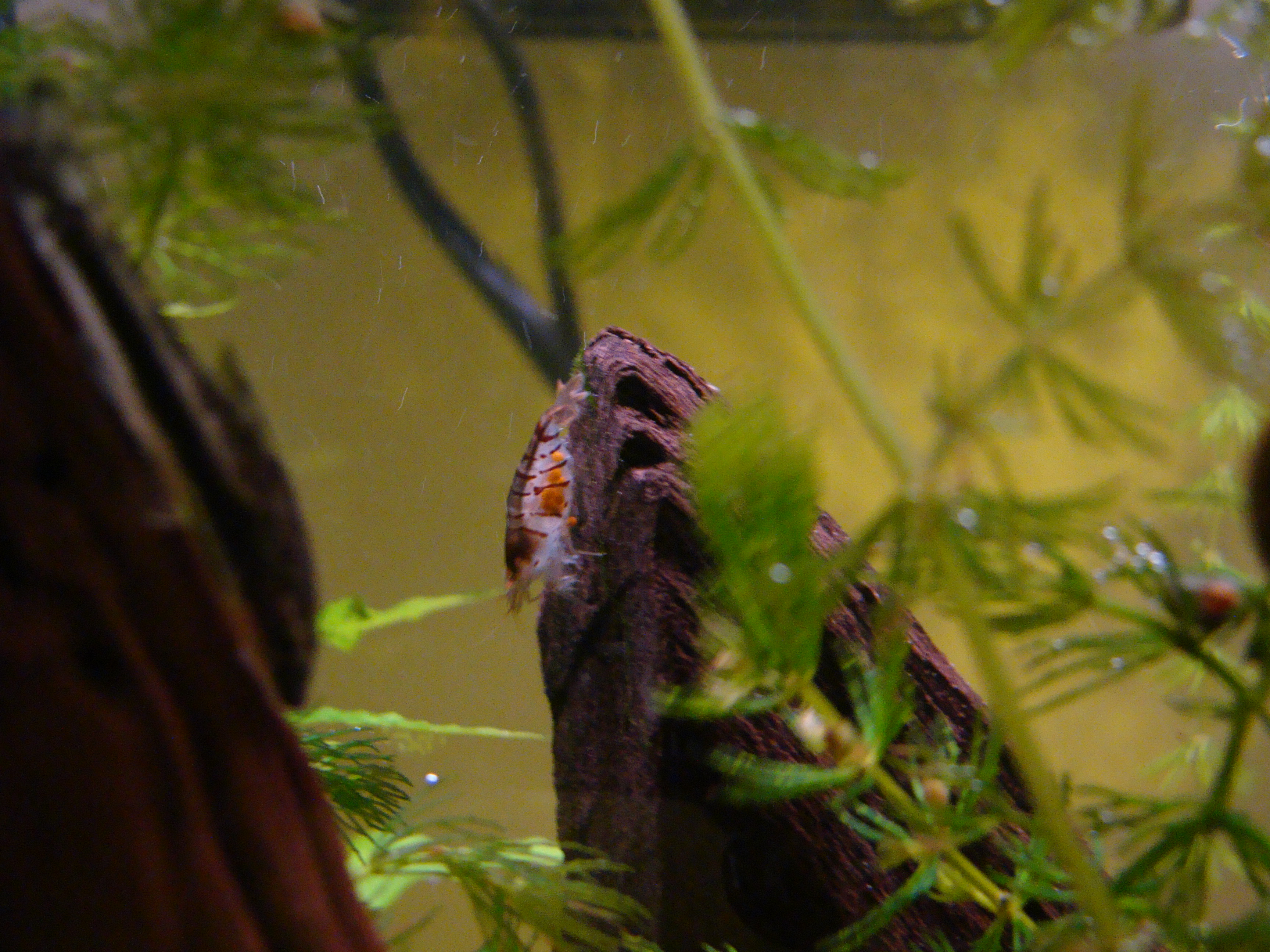 A female blue tiger shrimp with fertilized eggs in a freshwater aquarium.